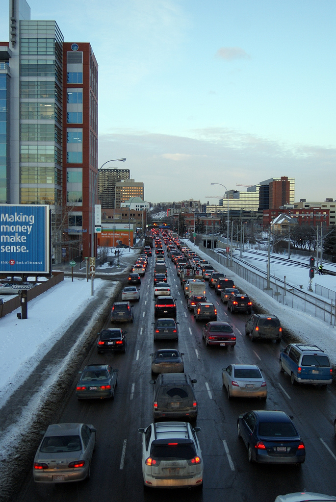 Macleod Trail northbound traffic at 5:30 p.m. on Wednesday February 9, 2011. Photo taken from the pedestrian overpass at the Victoria Park/Stampede C-Train Station.